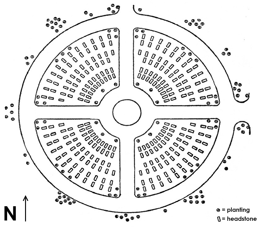 Layout of the Confederation Section of Arlington National Cemetery in Arlington County, Virginia, in the United States, as originally established in 1903. Note the lack of any memorial in the central circle. The Confederate Memorial would not be constructed until June 4, 1914.